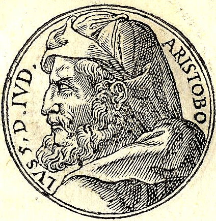 Aristobulus was a king of the Hebrew Hasmonean Dynasty, and the eldest of the five sons of King John Hyrcanus.